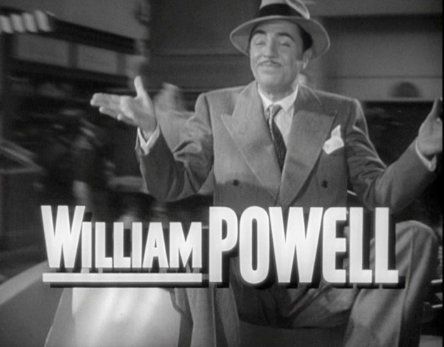 Cropped screenshot of William Powell from the trailer for Shadow of the Thin Man